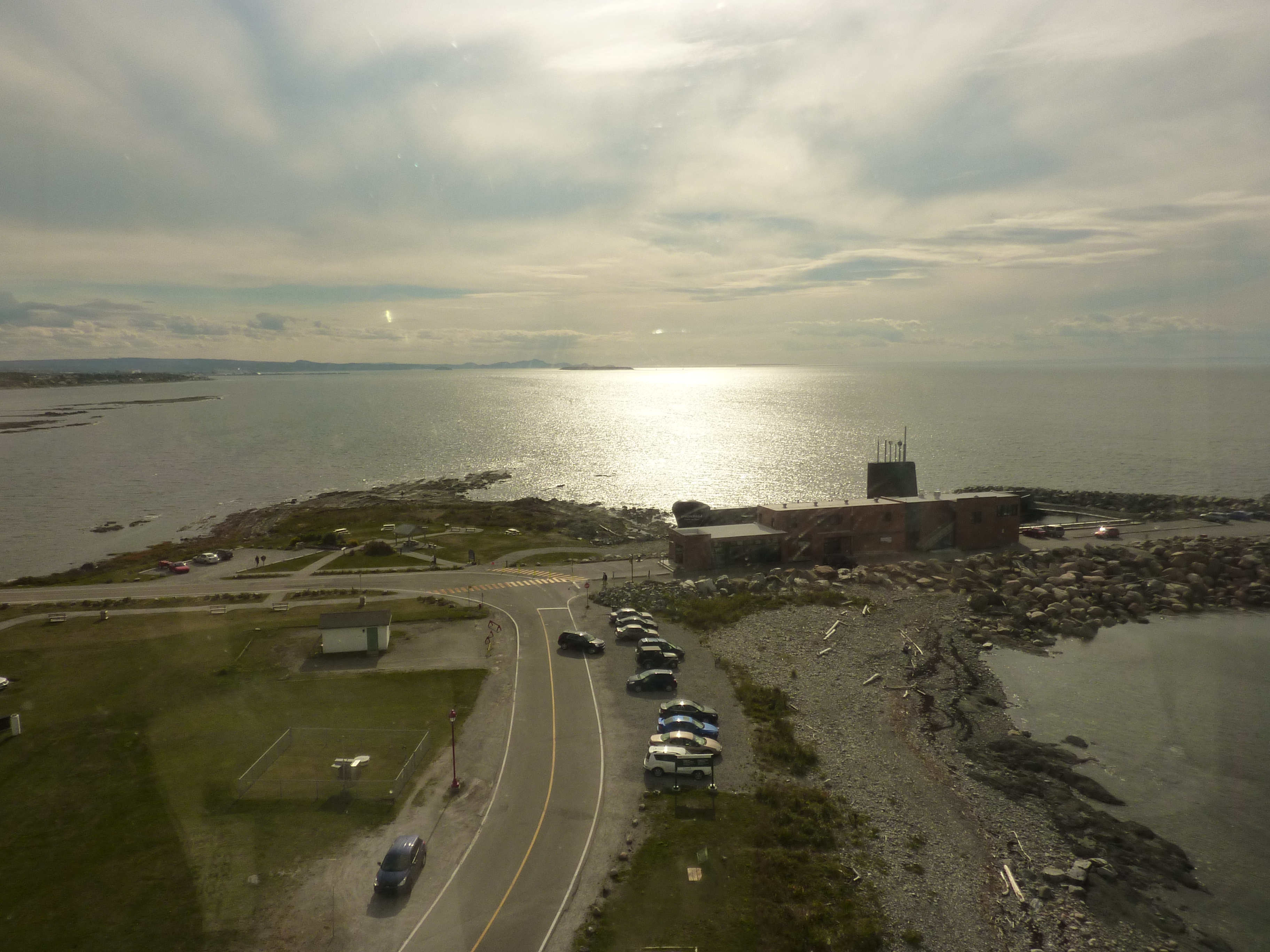 Westward view from the top of Pointe-au-Pere lighthouse - 2012-09. On the banks of the Saint-Lawrence River, the Onondaga museum submarine and its building can bee seen.